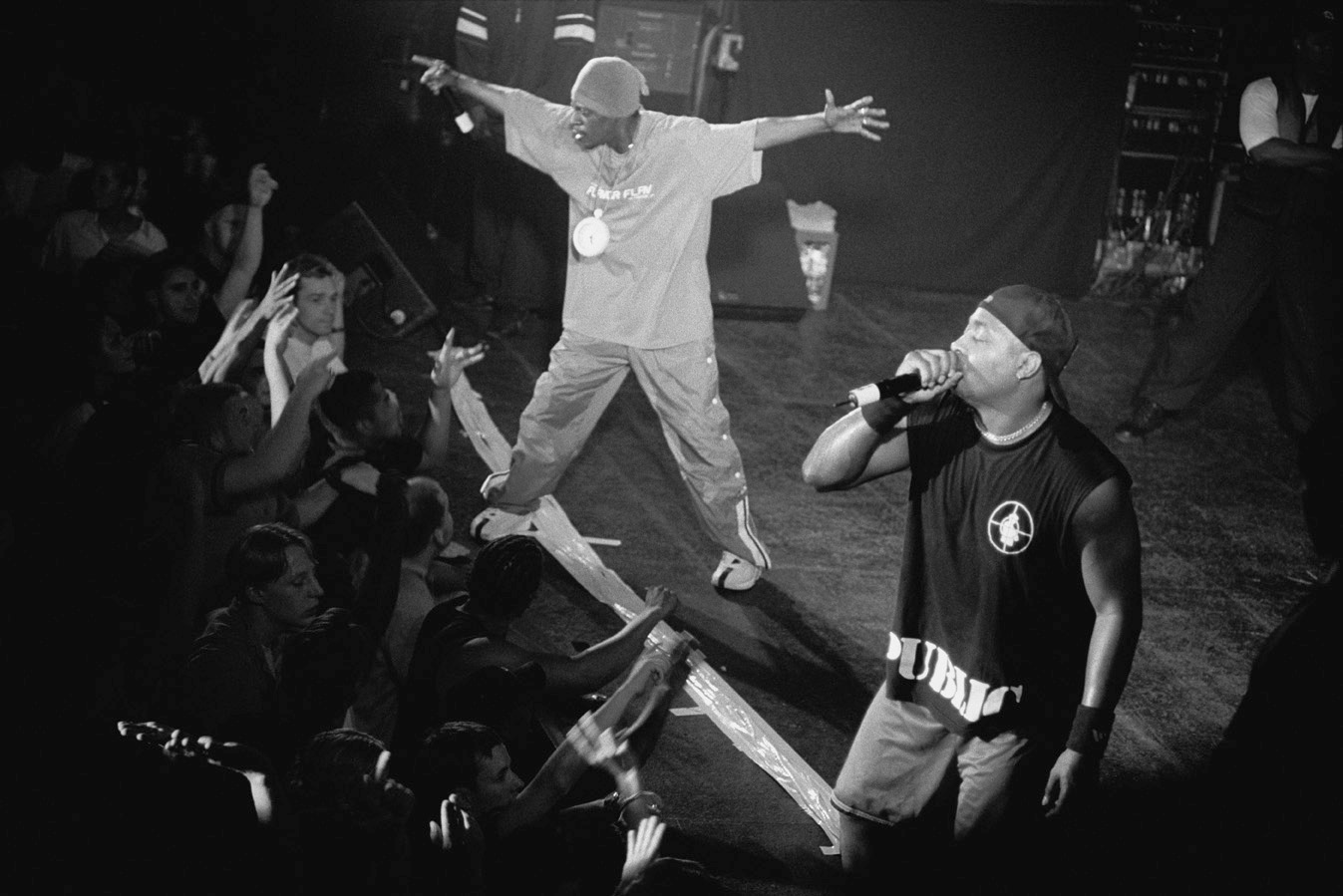 Public Enemy in Hamburg/Germany 2000